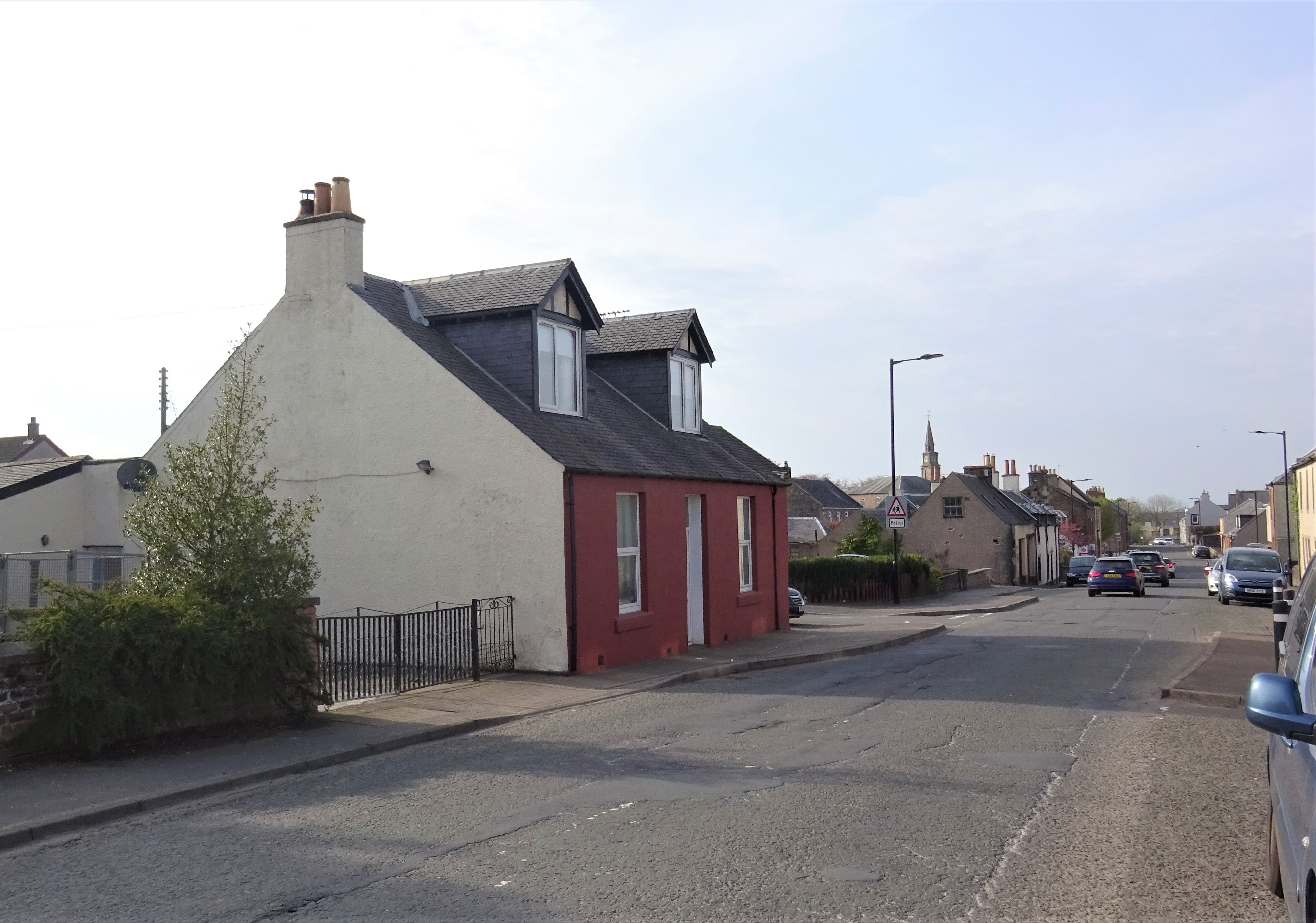 Montgomerie Street, Tarbolton, South Ayrshire, Scotland. Alexander Tait is thought to have lived on the west side. View from the south